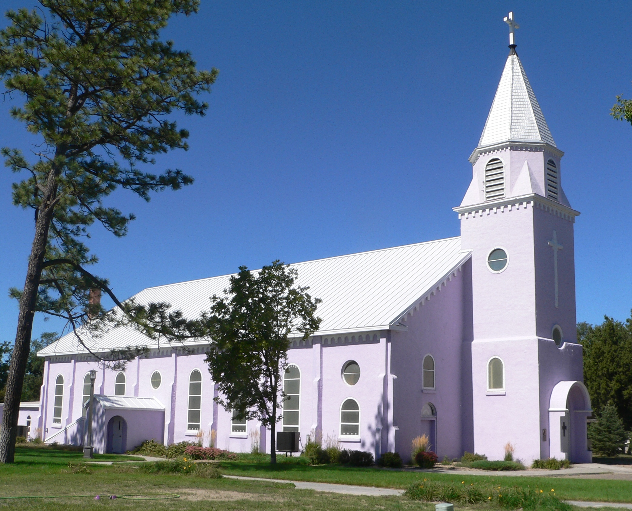 St. Charles Borromeo church in St. Francis, South Dakota; seen from the southeast.